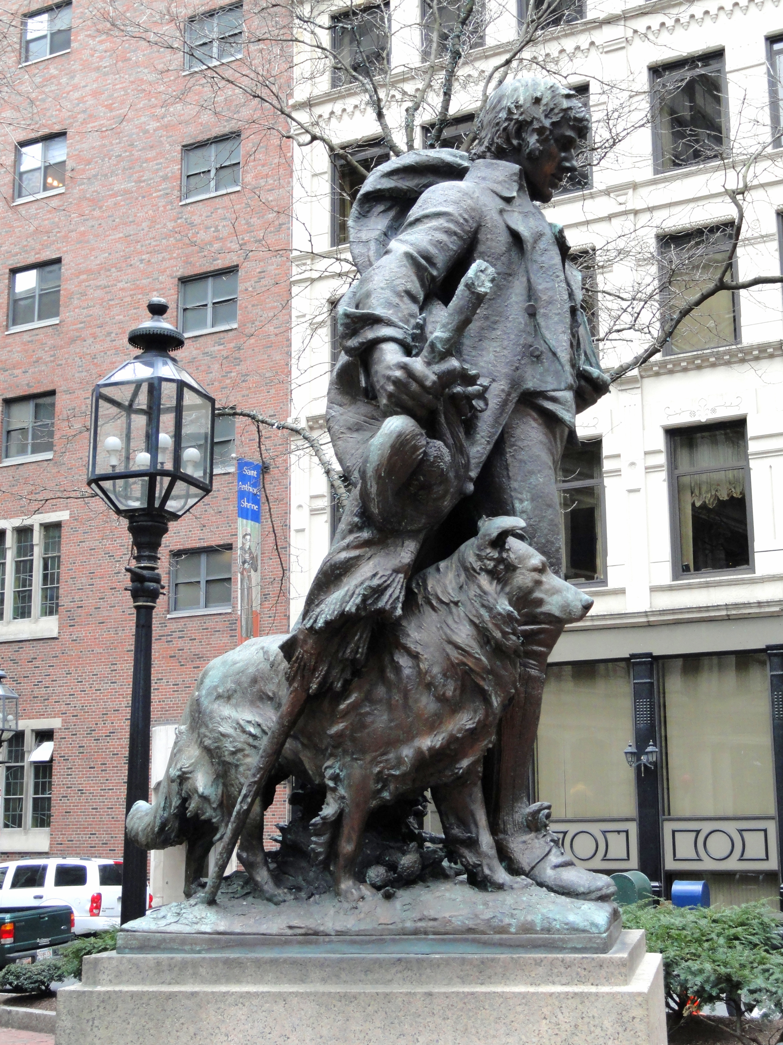 Statue of Robert Burns by Henry Hudson Kitson. Created in 1920. Originally located in the Fenway, now at 1 Winthrop Square, Boston, Massachusetts, USA. This work is in the public domain because first published in the United States before 1923.